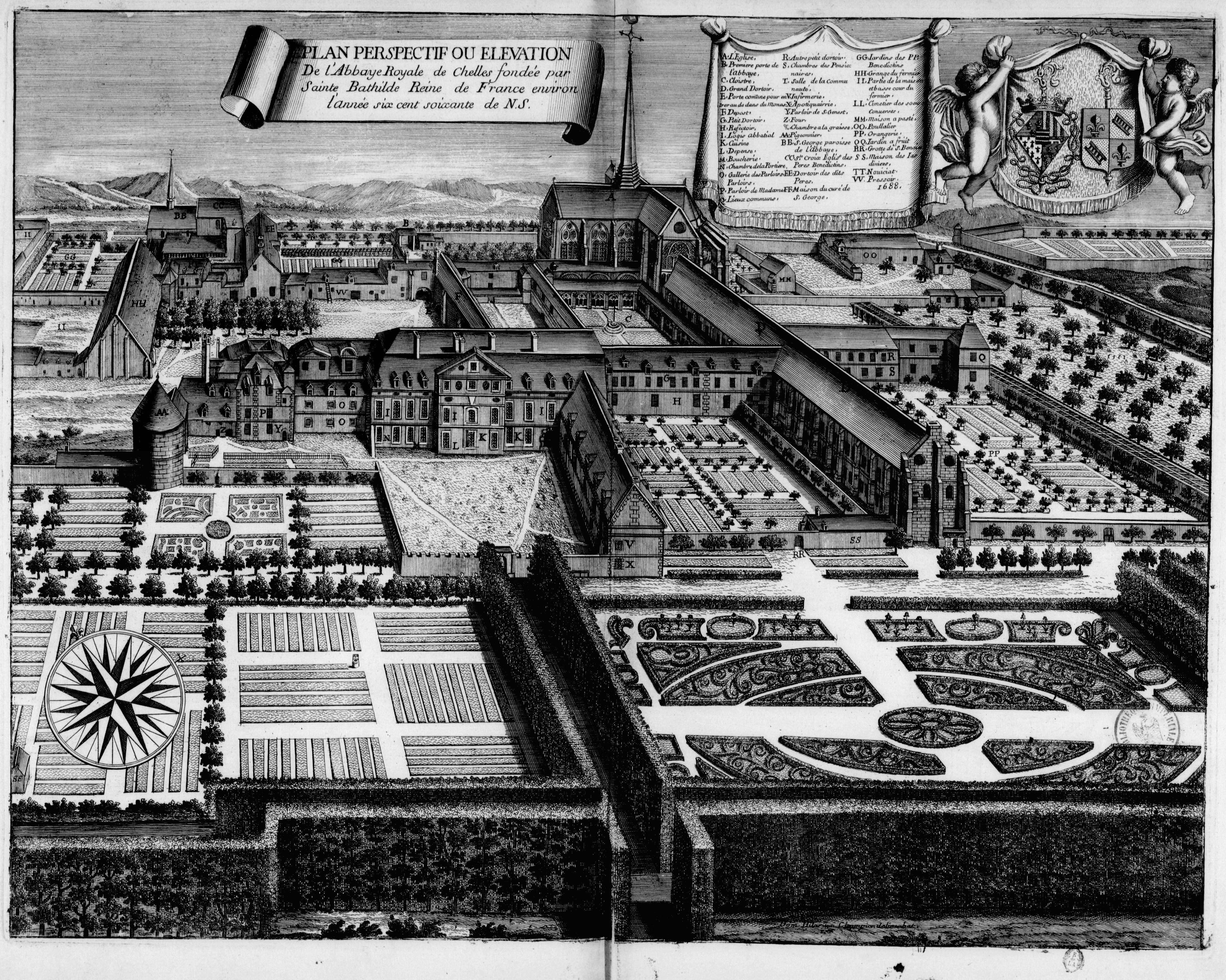 Chelles Abbey in 1688